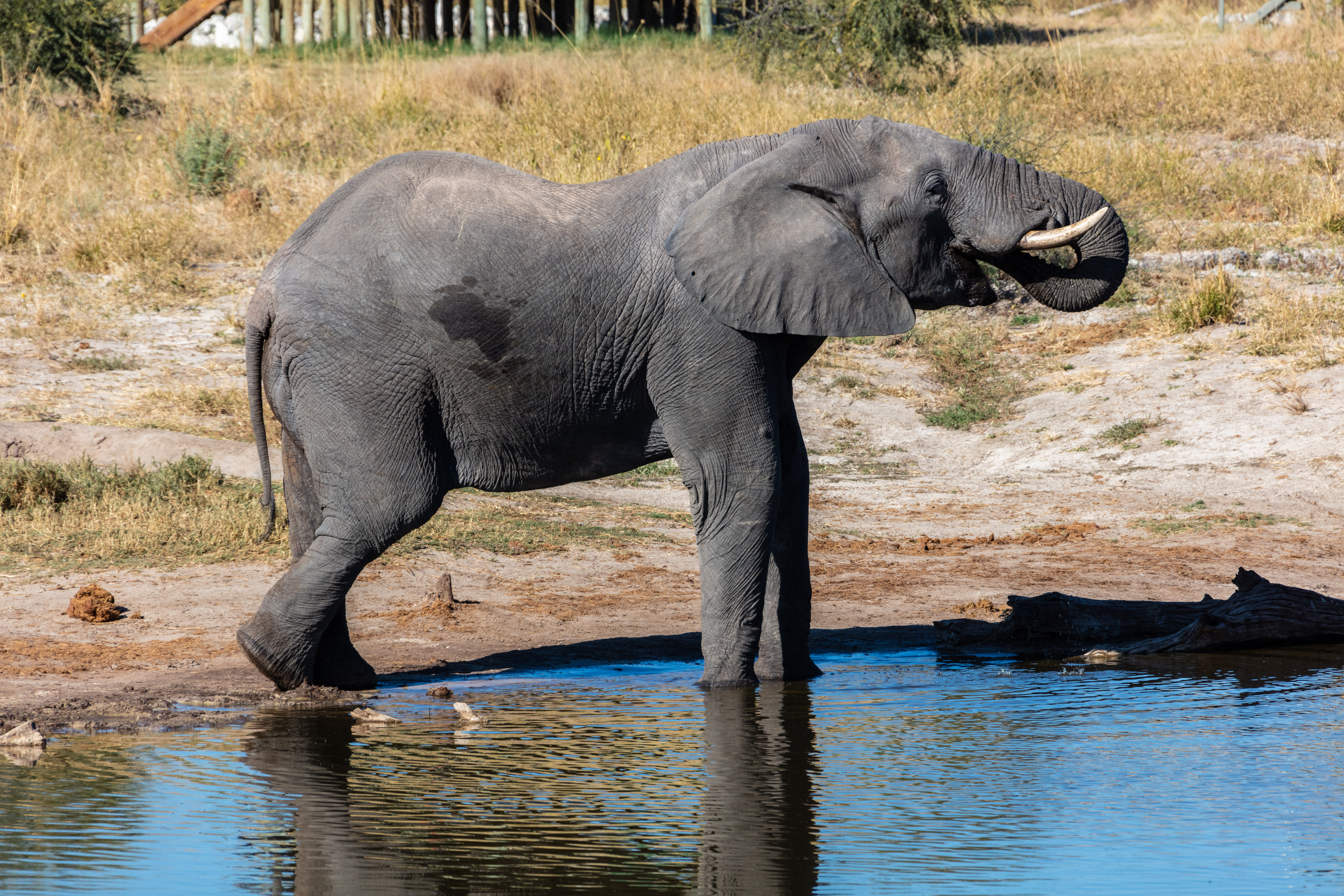 African bush elephant (Loxodonta africana), Elephant Sands, Botsuana